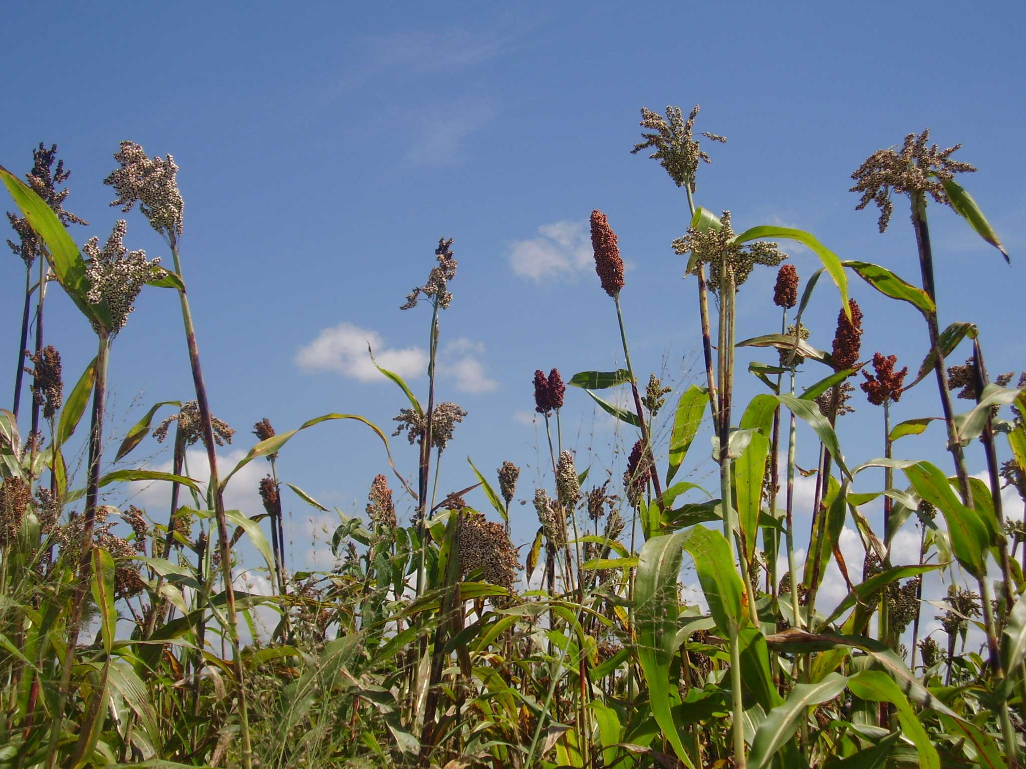 Sorghum almost ready for harvesting in Lango sub-region, Uganda.